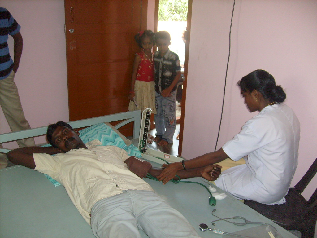 MediCamp-12